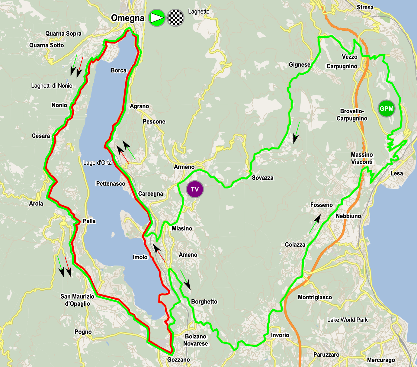 Map of stage 5 of Giro donne 2018.